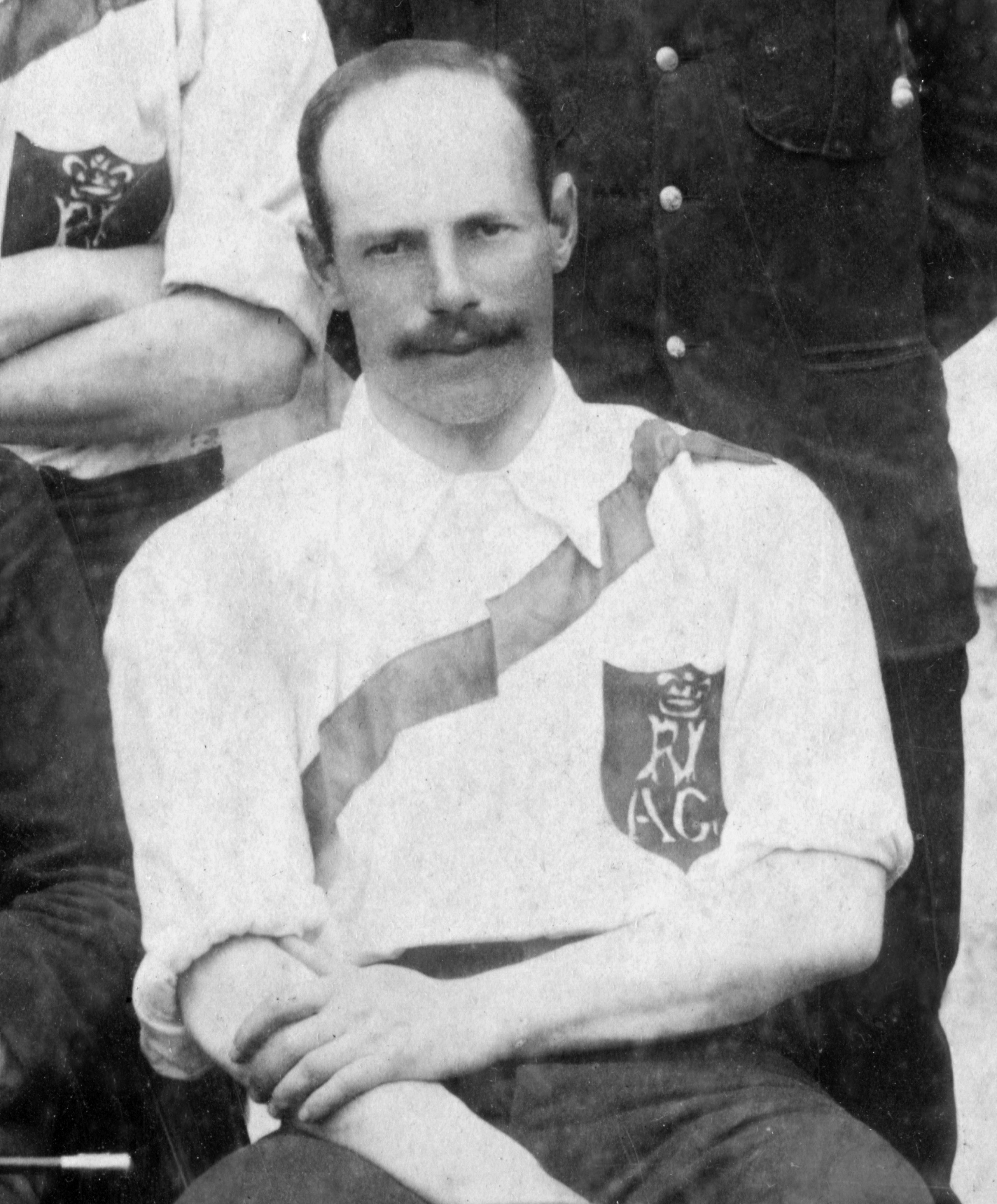 Cropped from a larger image showing winners of the regimental shield, a football prize.